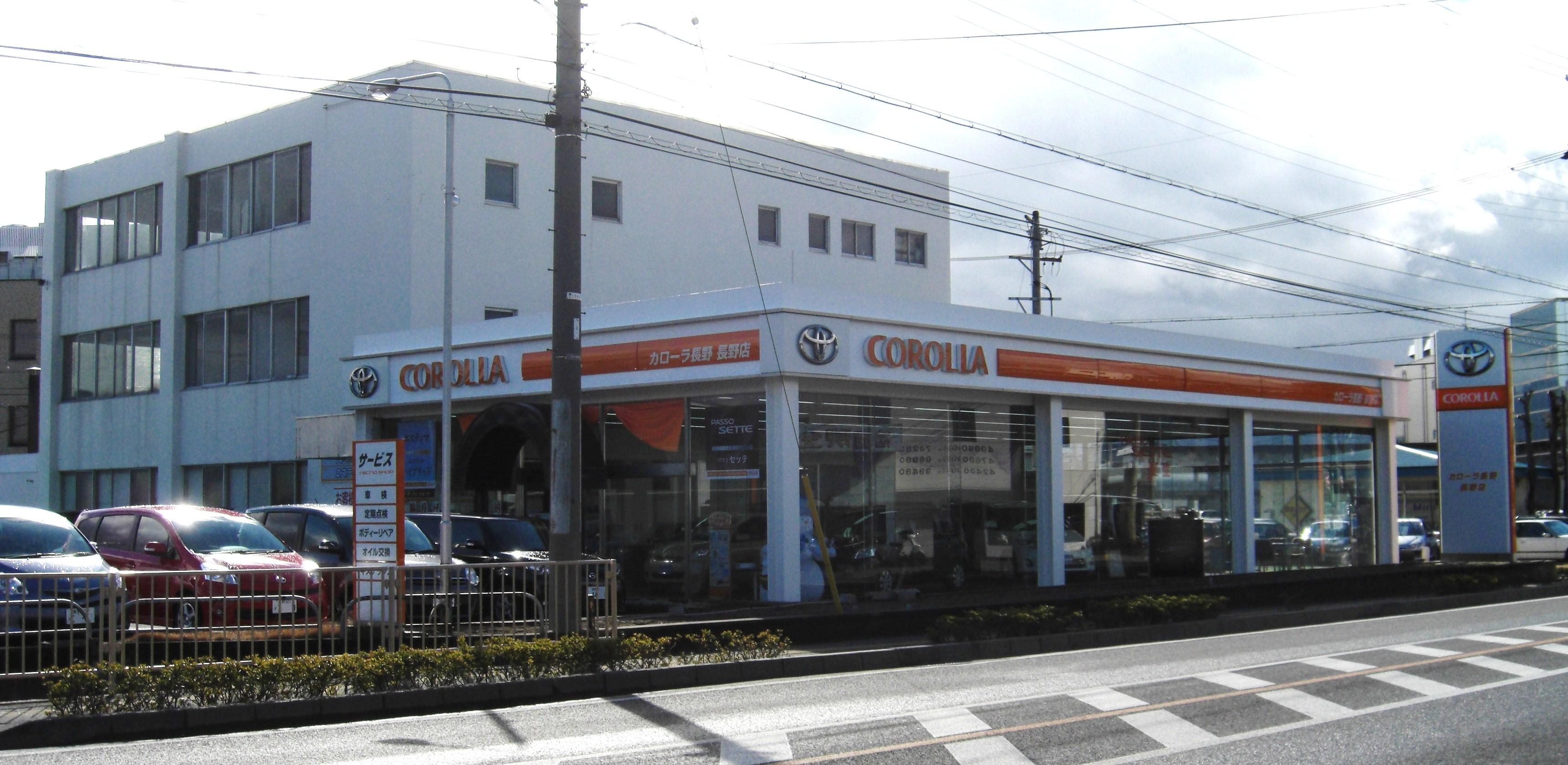 Toyota Corolla Nagano